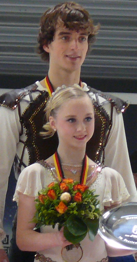 Annabelle Prölß and Ruben Blommaert at the German Championships in figure skating 2013 - victory ceremony pairs